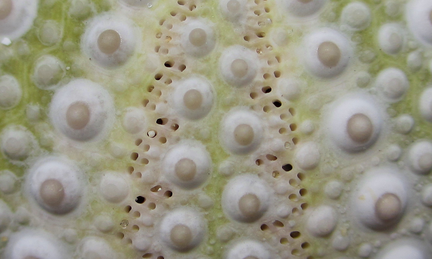 Sea urchin shell - pattern